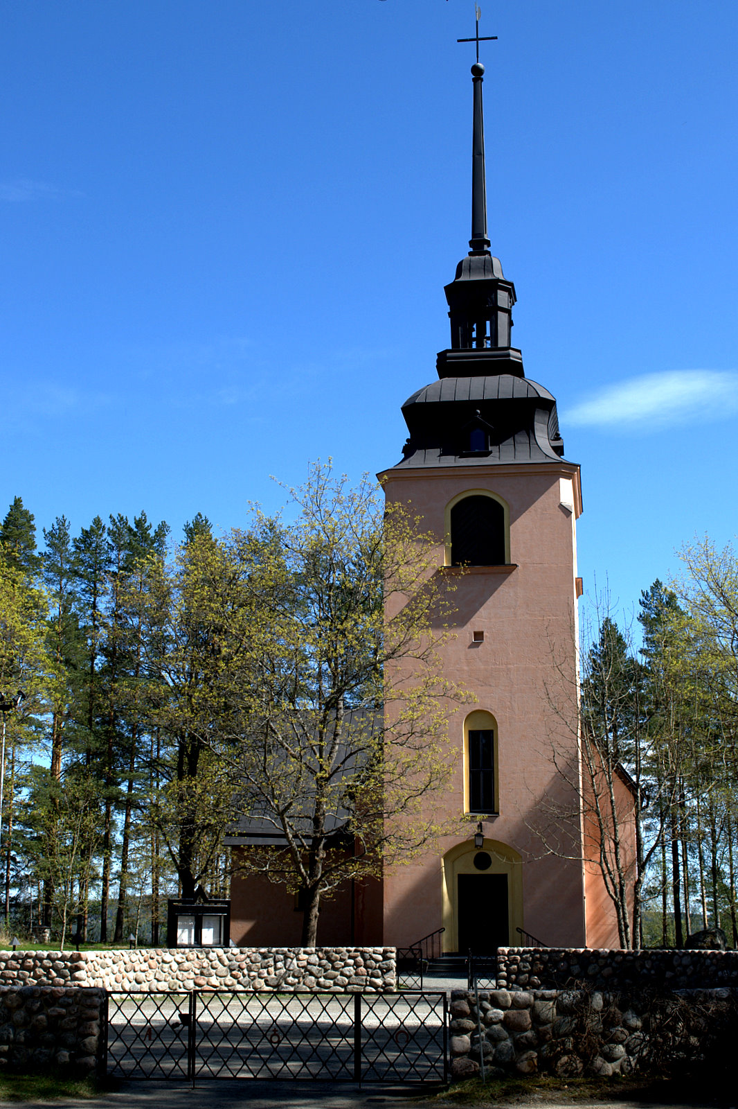 Säynätsalo Church in Jyväskylä, Finland.